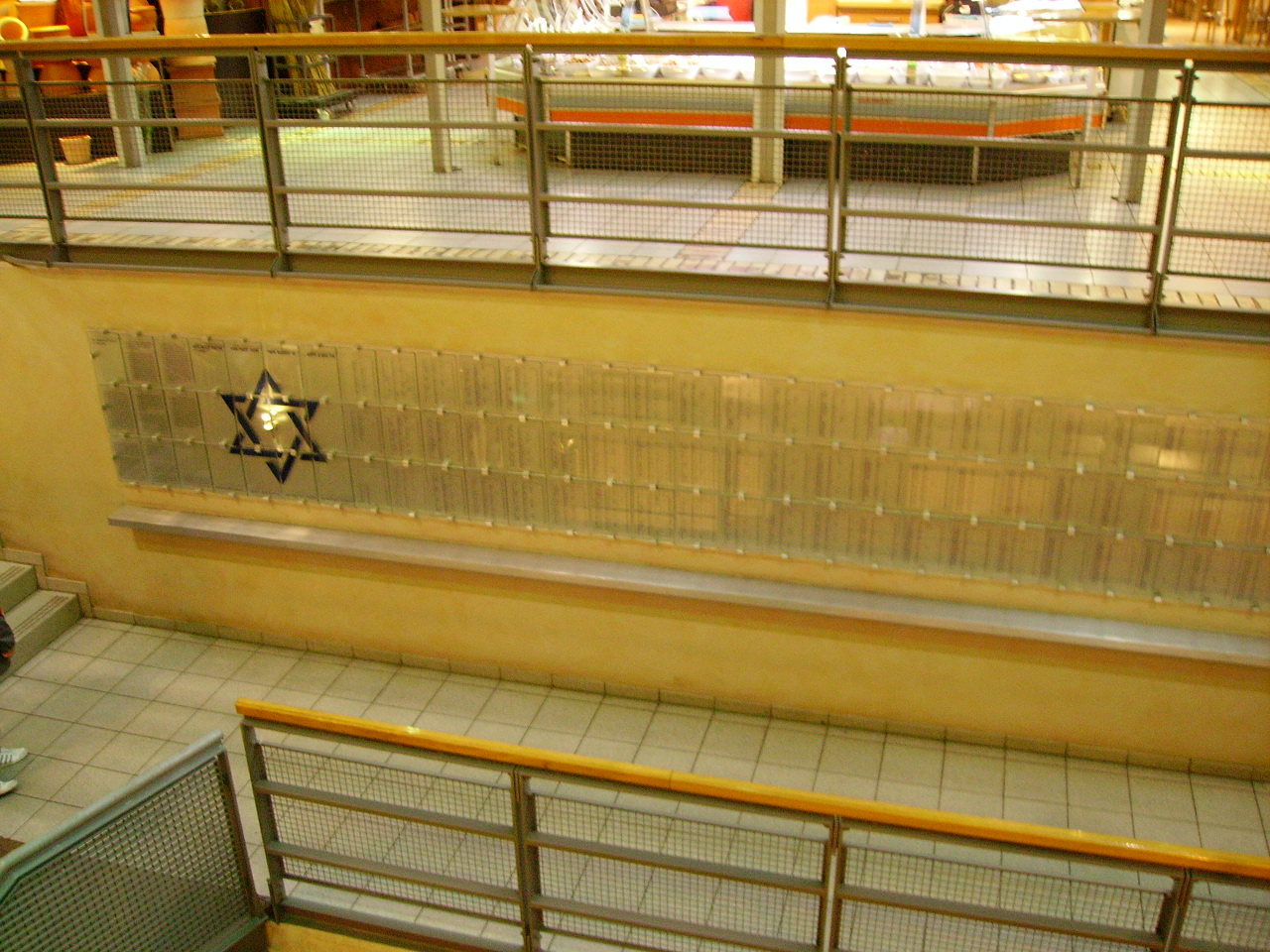 Plaque in a shopping mall, for a former Jewish cemetery in Altona, now Hamburg.